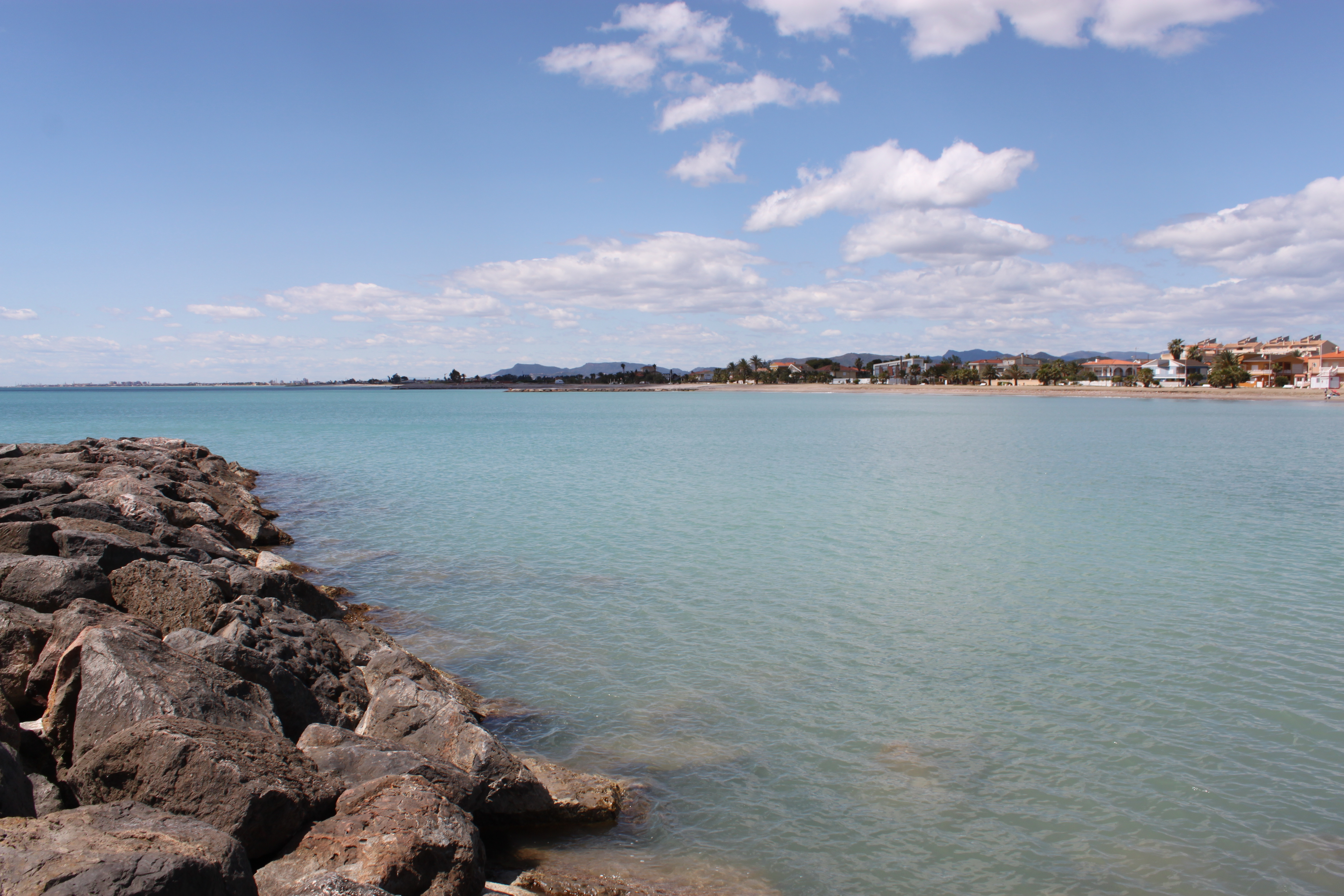 A mediterranean beach in Chilches, Spain.